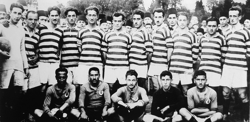 Fenerbahçe SK squad 1922-23 season, before the match against Hilal SK in Union Club Stadium.